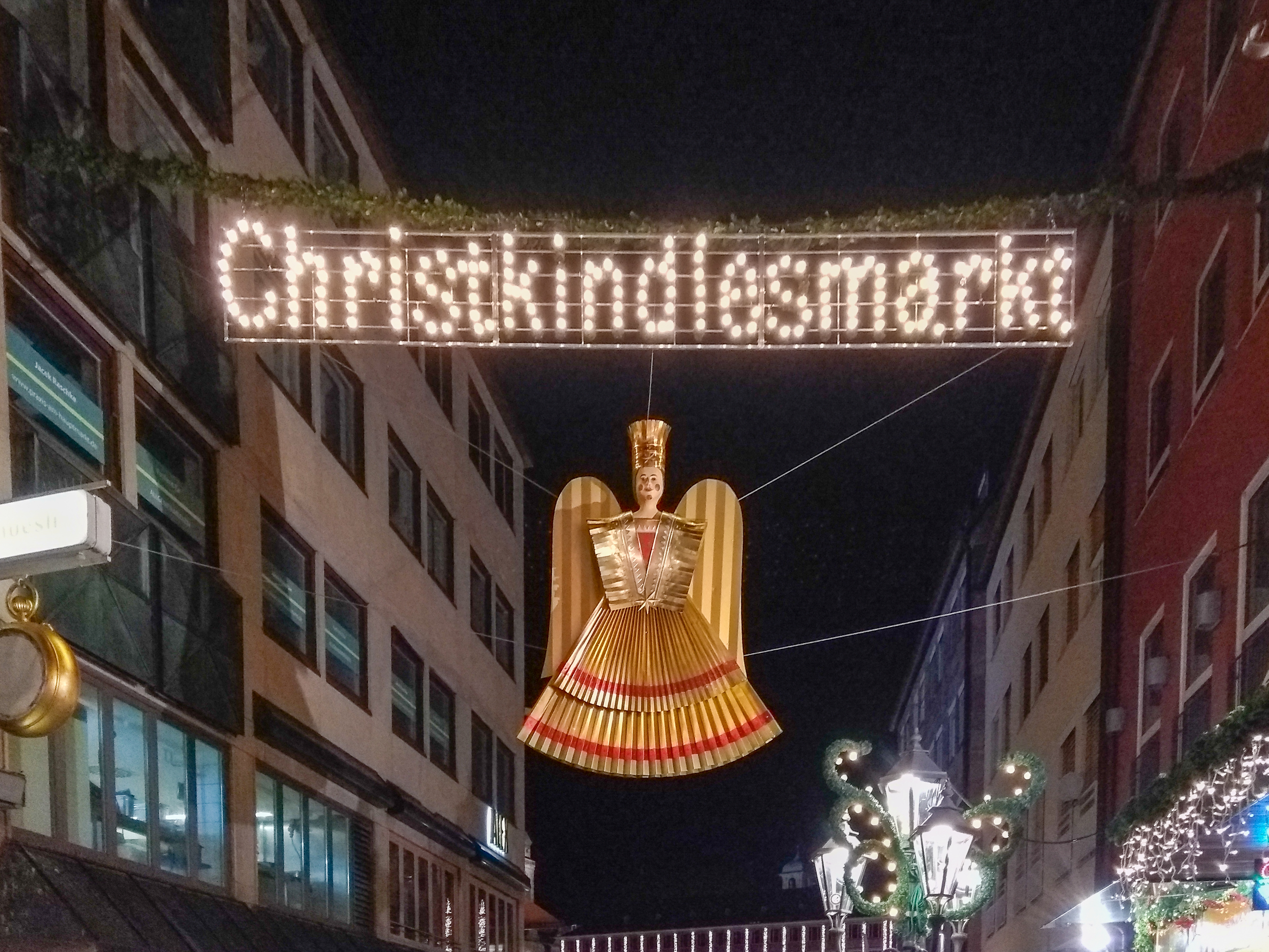 Nuremberg Christkindlesmarkt